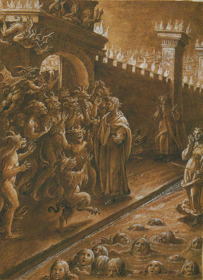 Illustration of Dante's Inferno, Canto 9